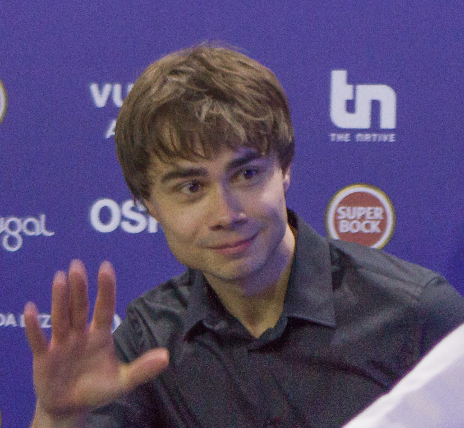 At the 2018 Semi Final 2 qualifiers press conference